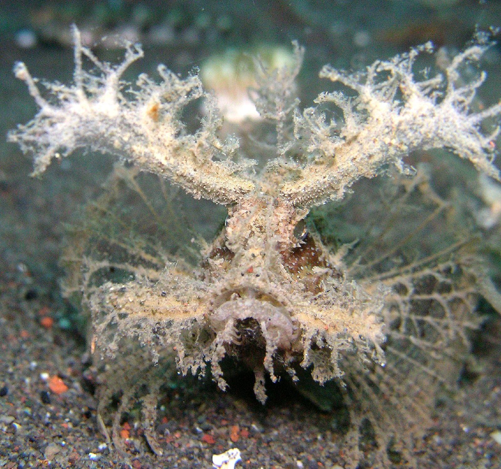 Ambon scorpionfish (Pteroidichthys amboinensis)